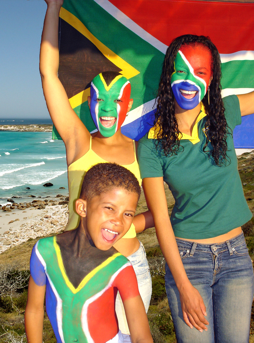 Fans celebrating the upcoming 2010 FIFA World Cup in South Africa (Cape Town)